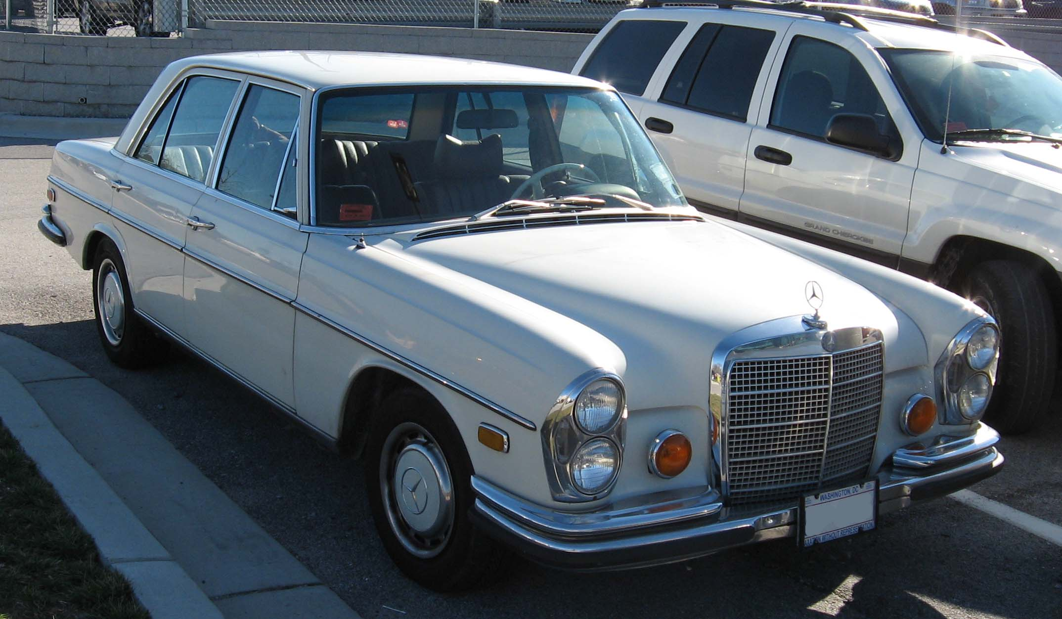 Mercedes-Benz W108 280SE photographed in USA.